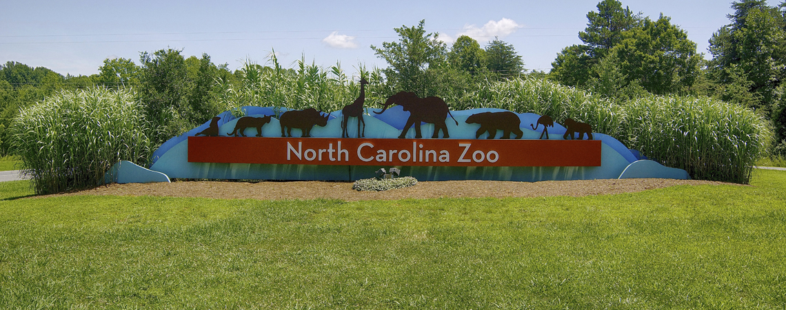 NC Zoo Entrance Sign 2019